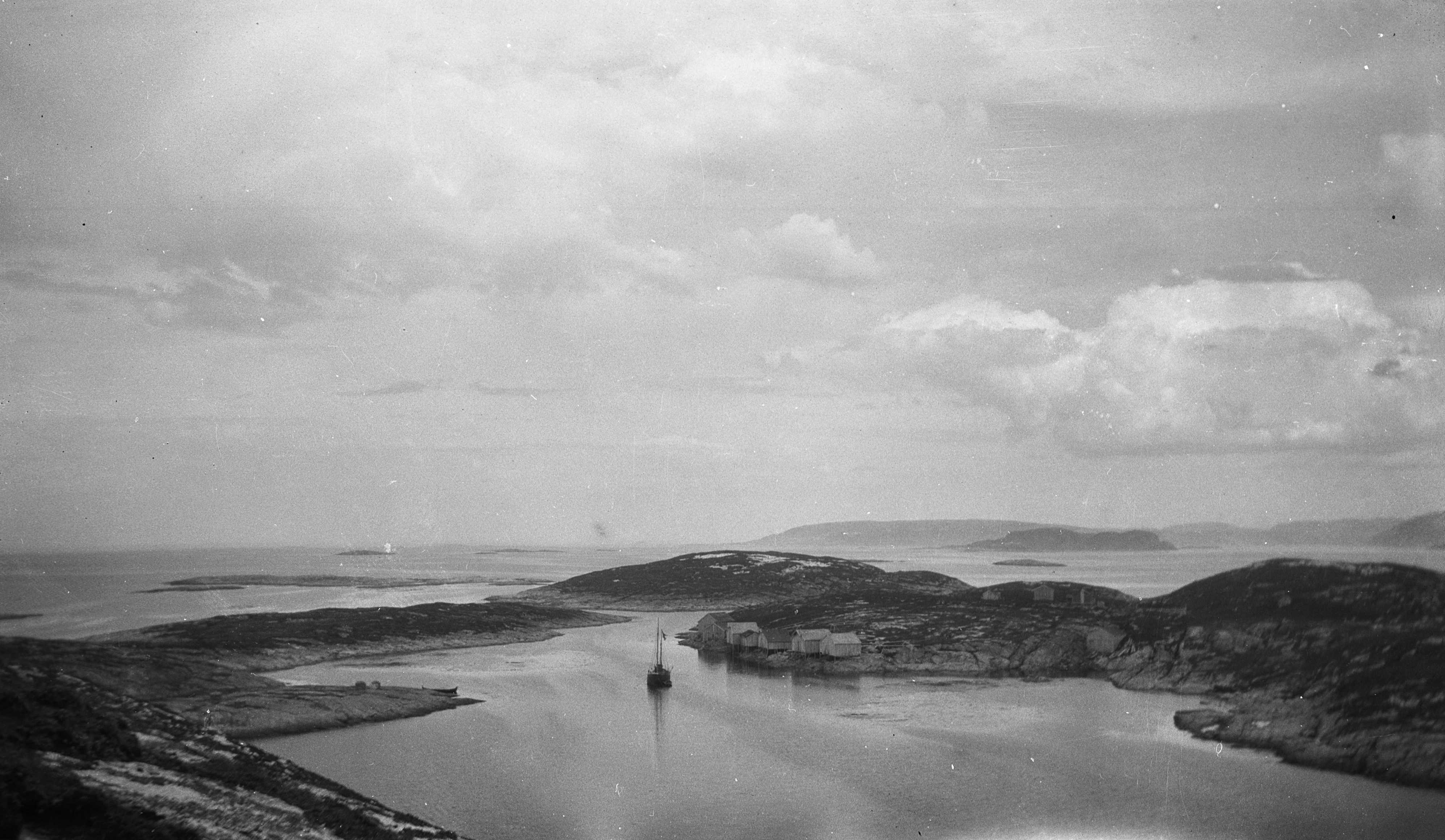 Identifier: SFFf-100585.274825 Photographer: Kristian Berge. Medium: Cellulose nitrate negative. Extent: 7 x 12 cm. Original caption (from Berge's negative album):Kalværet ved Bessaker.